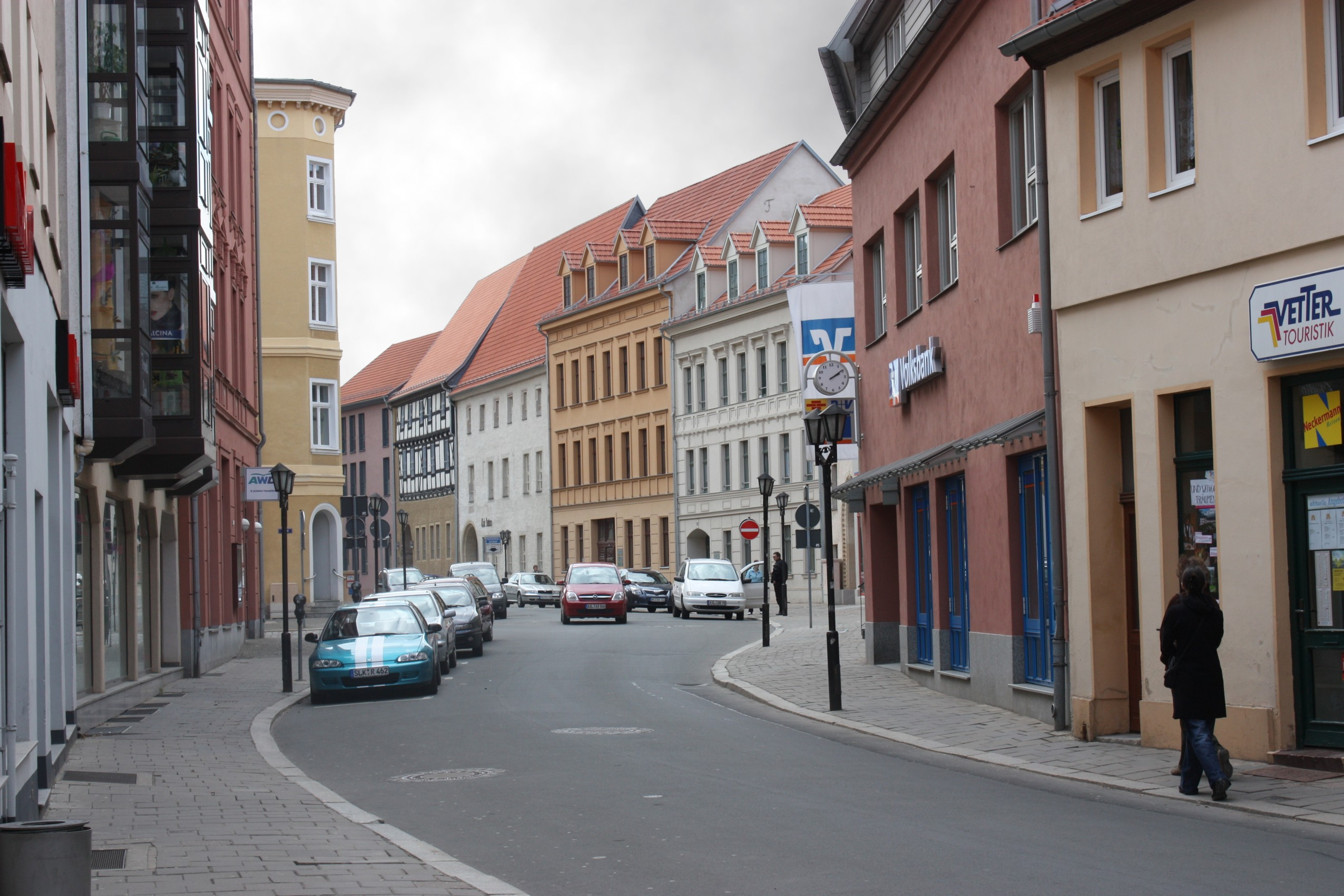 Aschersleben, the street "Tie"